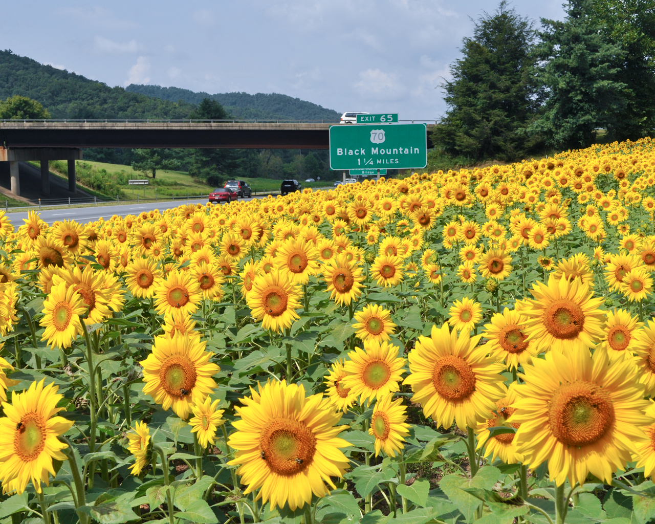 I-40 at Exit 66 in Buncombe County; picture won second place in division 13. The image includes sunflowers near the interchange.